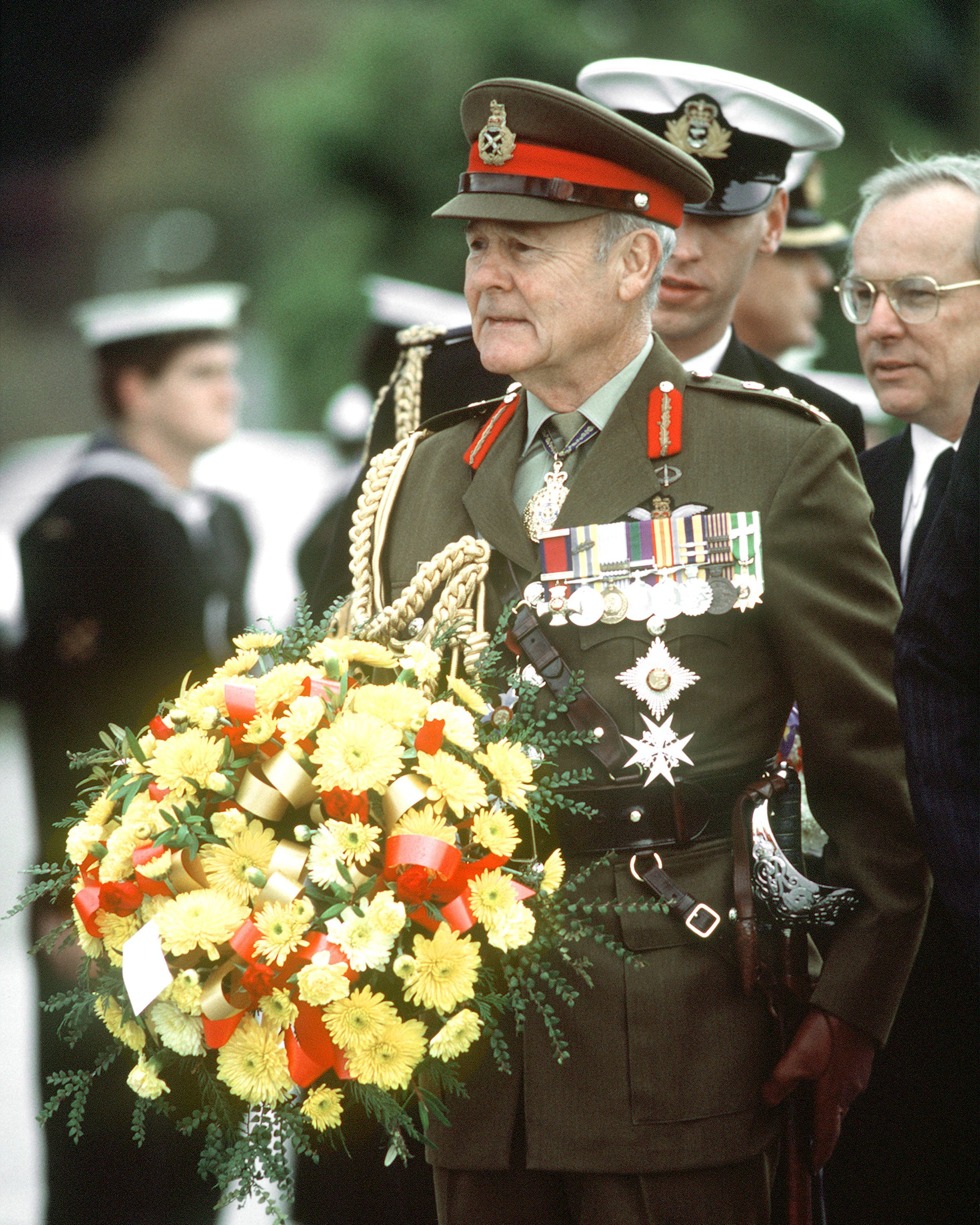 "GEN Sir Phillip Bennett, royal governor of Tasmania, prepares to place a wreath at a memorial during a service, part of ceremonies commemorating the 50th anniversary of the Battle of the Coral Sea."